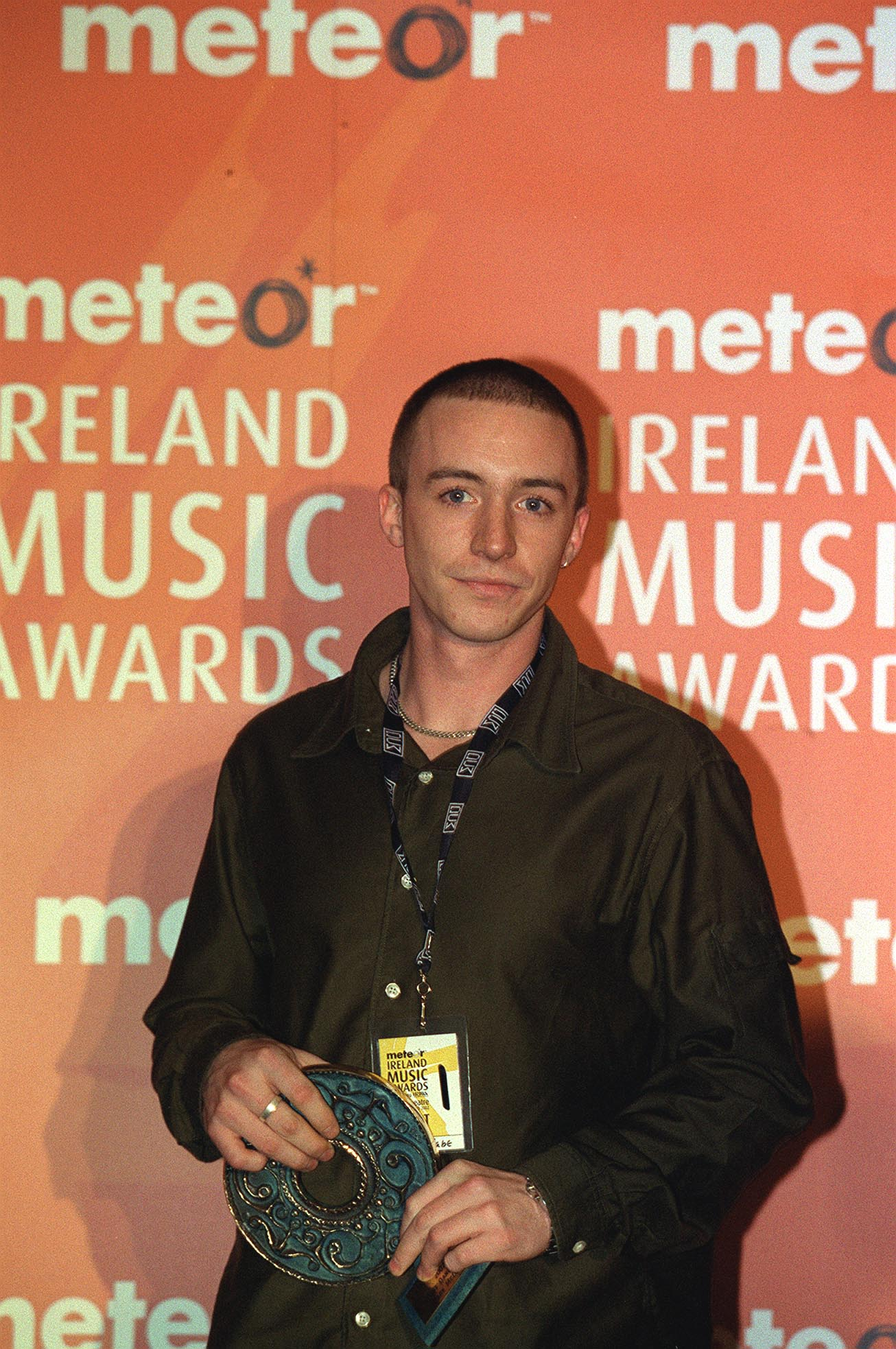 Mark McCabe-Best Selling Single Male 2001 Meteor Ireland Music Awards